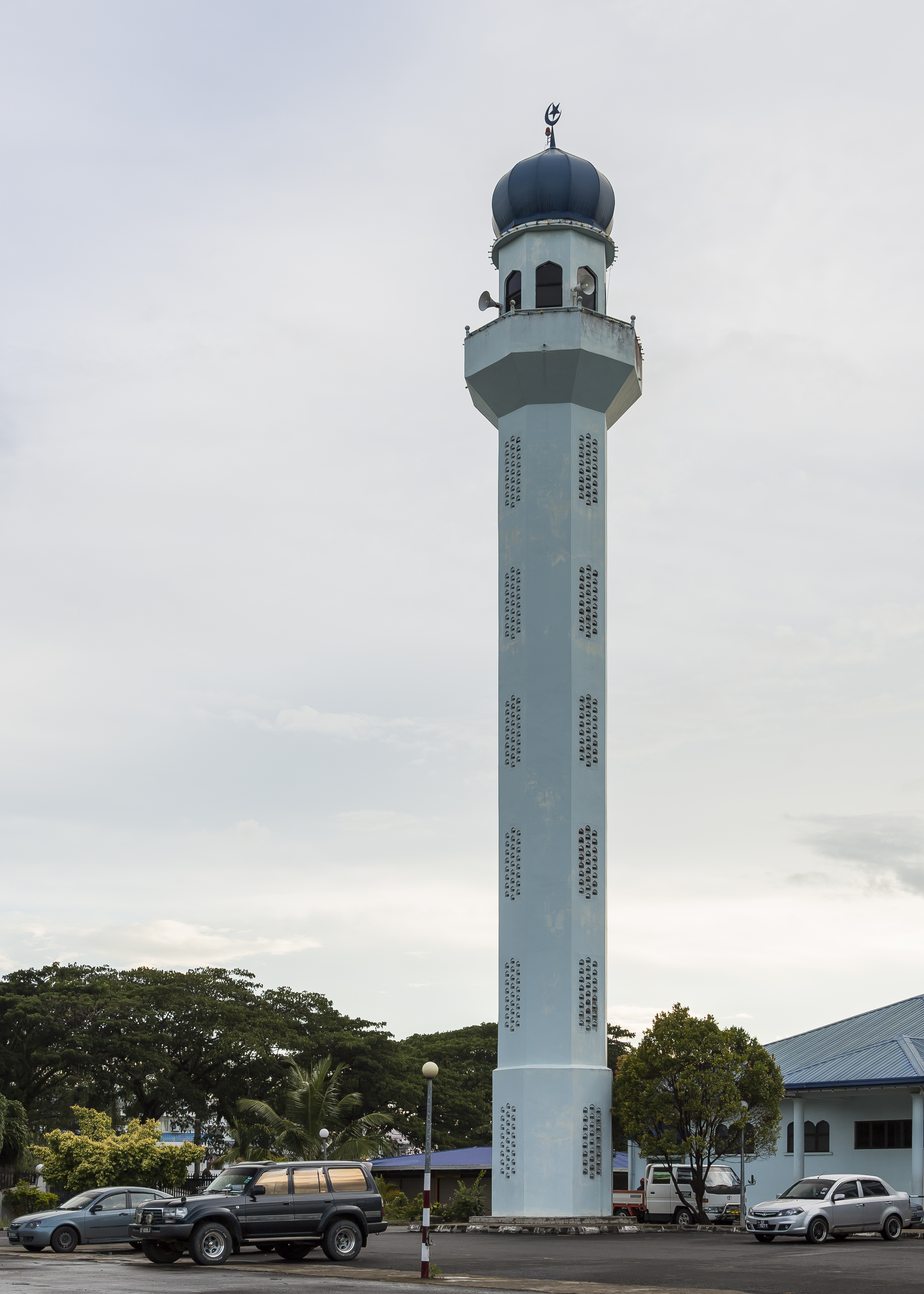 Lahad Datu, Sabah: Minaret of Masjid Ar-Raudah in the last daylight